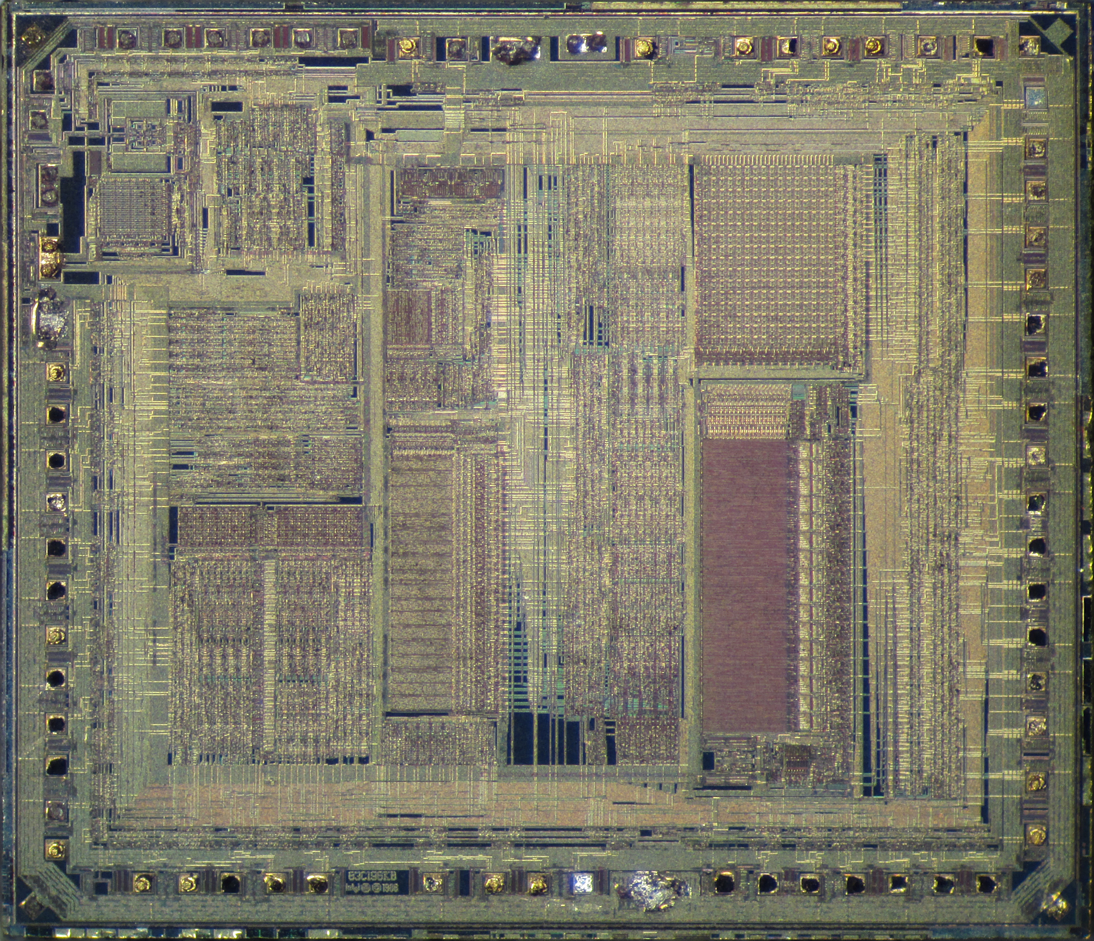 Die shot of Intel 83C196KB microcontroller in MCS-96 series.